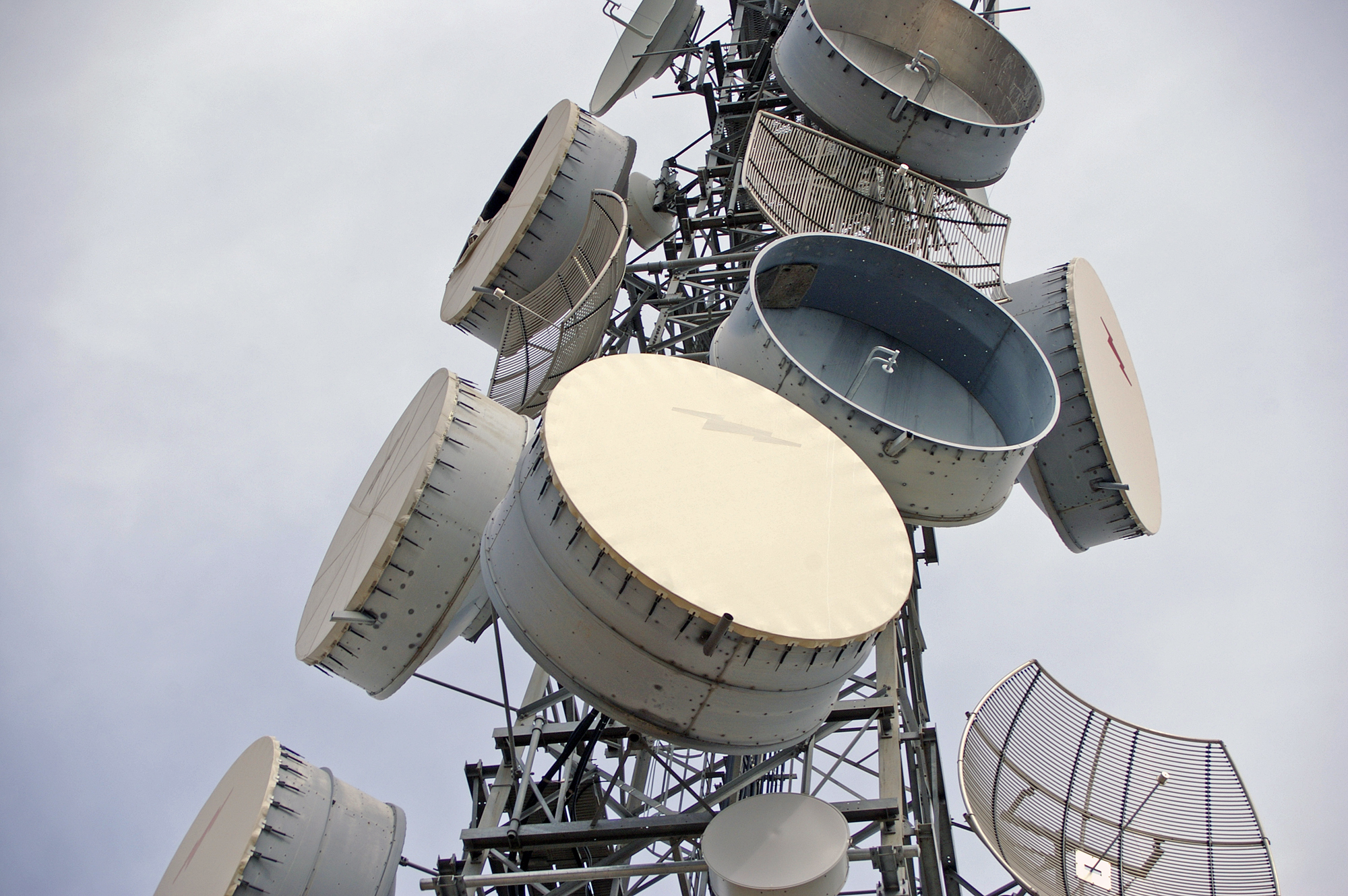 Parabolic antennas (also known as microwave dishes) on a telecommunications tower on Willans Hill, Wagga Wagga, New South Wales, Australia. The cylinder shapes are metal shrouds surrounding the parabolic dishes. The shoud shields the antenna from signals coming from angles outside its main axis. This allows antennas located close to each other to use the same microwave frequencies without interfering with each other. The antennas have thin plastic sheets over their apertures to keep out precipitation.